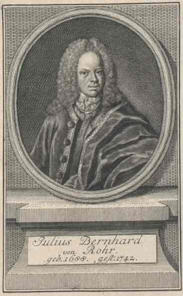 Julius Bernhard von Rohr engraving